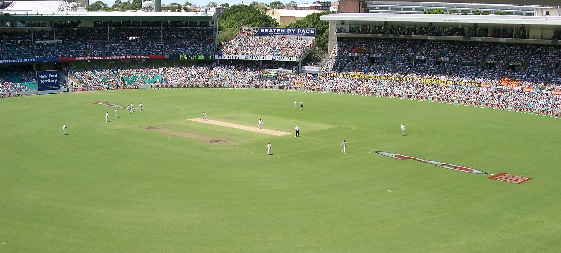 Sydney Cricket Ground. Australia v India, 4th Test. Photograph taken by David Morgan-Mar, 2 January, 2004, at Sydney Cricket Ground. Copyright David Morgan-Mar.